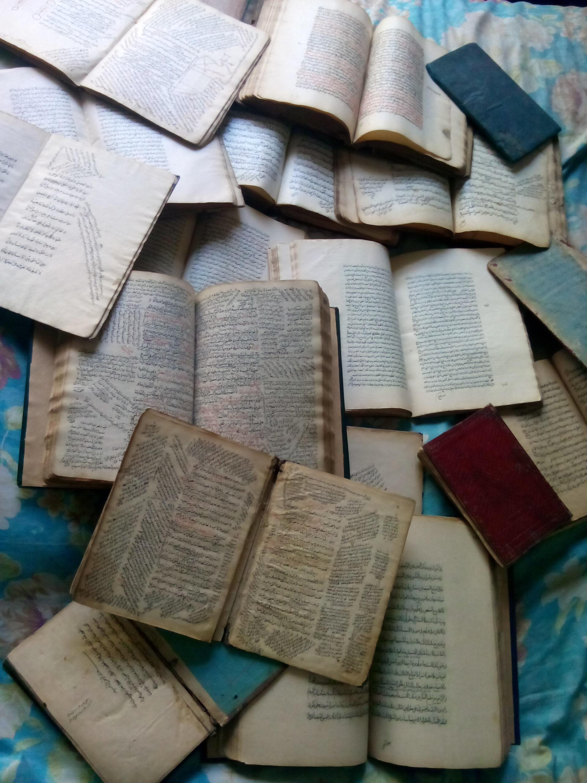 Arabic Manuscripts written in the 18th century in Baghdad, and its a part of Mullah Qasim Effendi Al-Mufti s collection